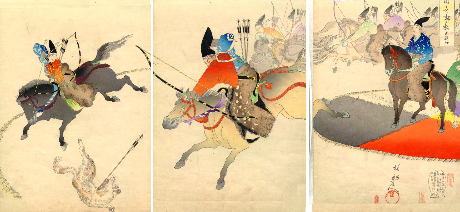 The Mounted Archery Chasing Dogs "Inu ou mono". From "Chiyoda no Ohyoh". Meiji era.